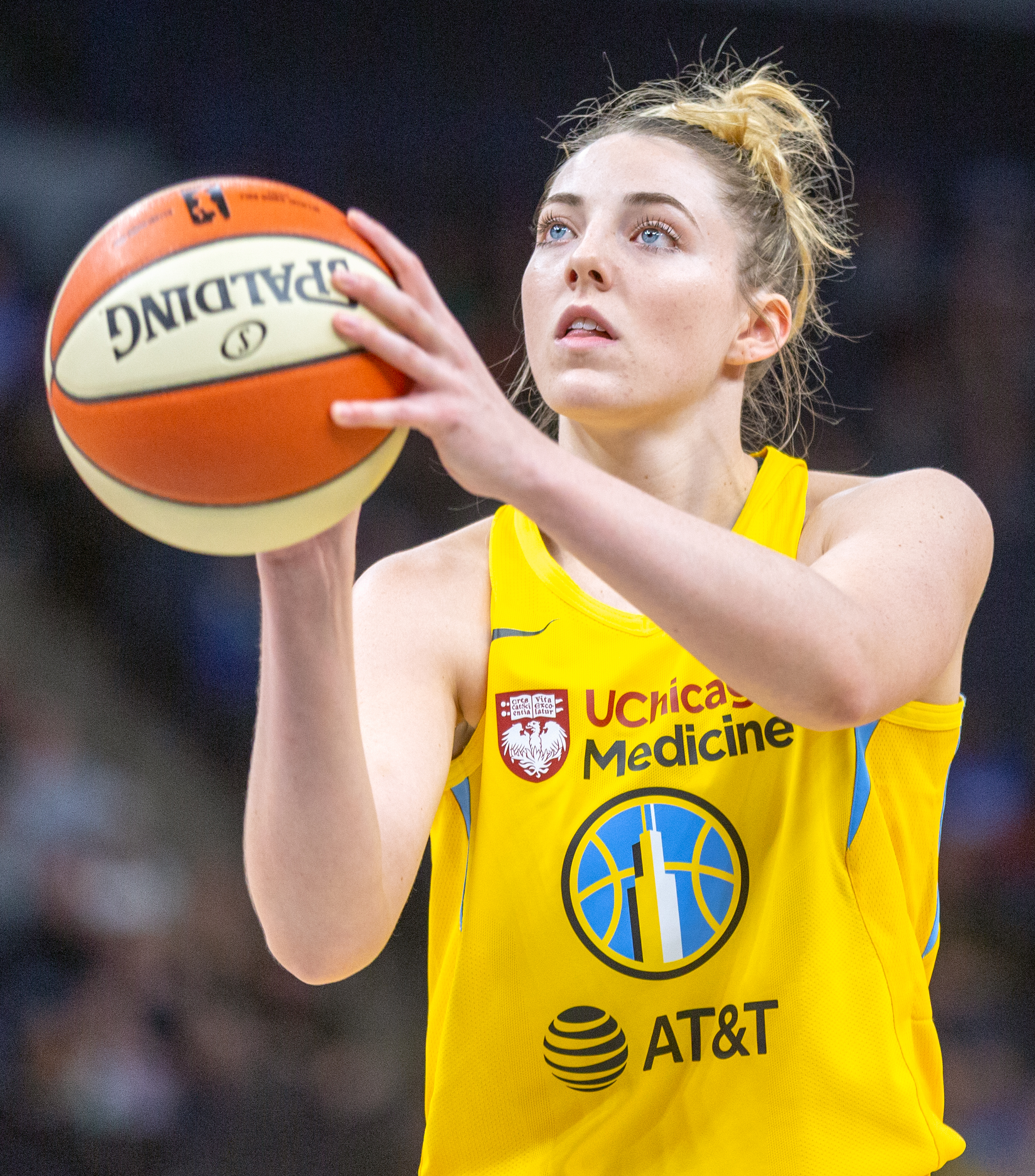 Minnesota Lynx vs Chicago Sky on 5/25/19 at Target Center in Minneapolis, MN; the Lynx won the game 89-71.